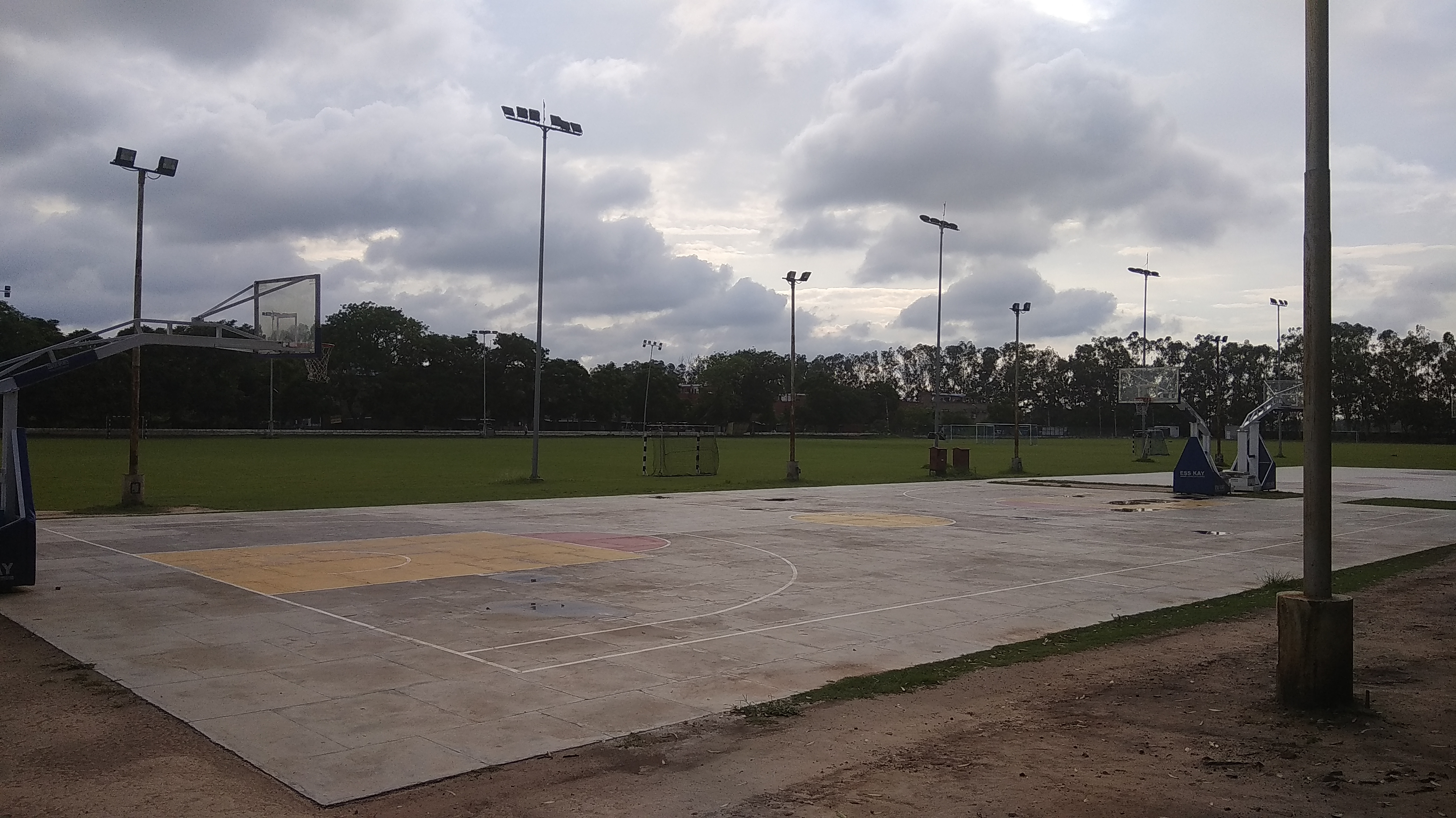 Basket Ball Ground, Punjabi University, Patiala ਪੰਜਾਬੀ: ਬਾਸਕਟਬਾਲ ਮੈਦਾਨ, ਪੰਜਾਬੀ ਯੂਨੀਵਰਸਿਟੀ, ਪਟਿਆਲਾ